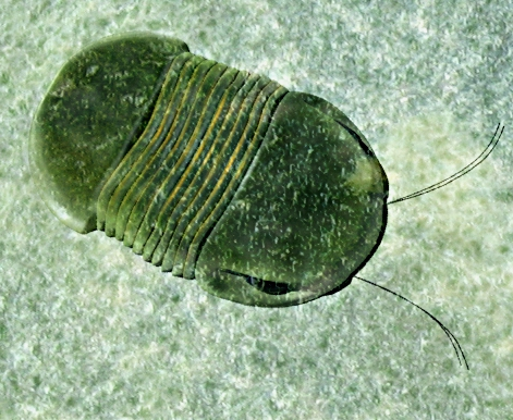 Cropped version of File:Trilobite_-_Bumastus_reconstruction_3d_scene.jpg 3d reconstruction of the trilobite Bumastus. Created with ZBrush, 3dsmax 2010, and GIMP